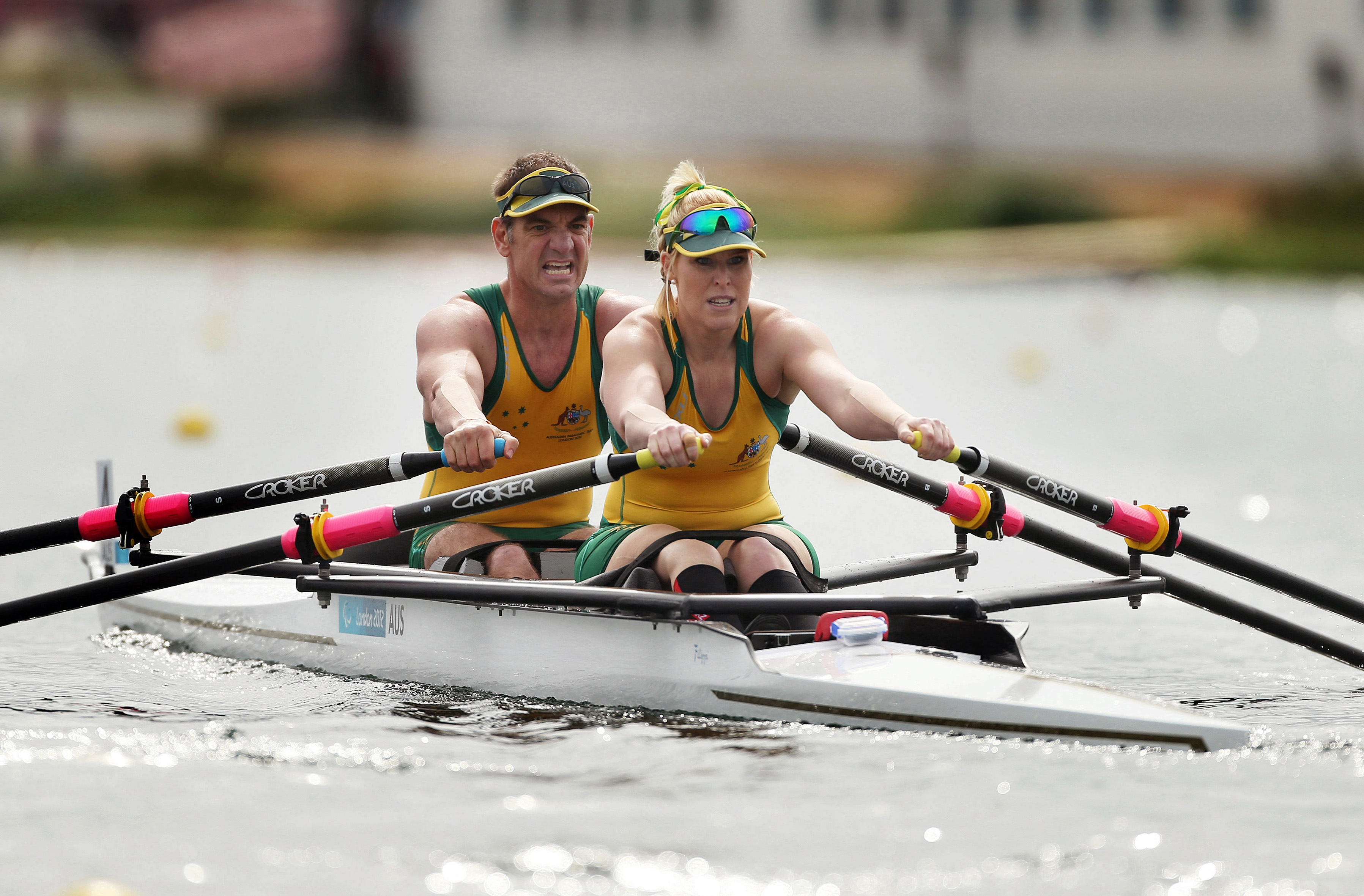 Photograph of Australian Paralympic team members Gavin Bellis & Kathryn Ross at the 2012 Summer Paralympic Games in London